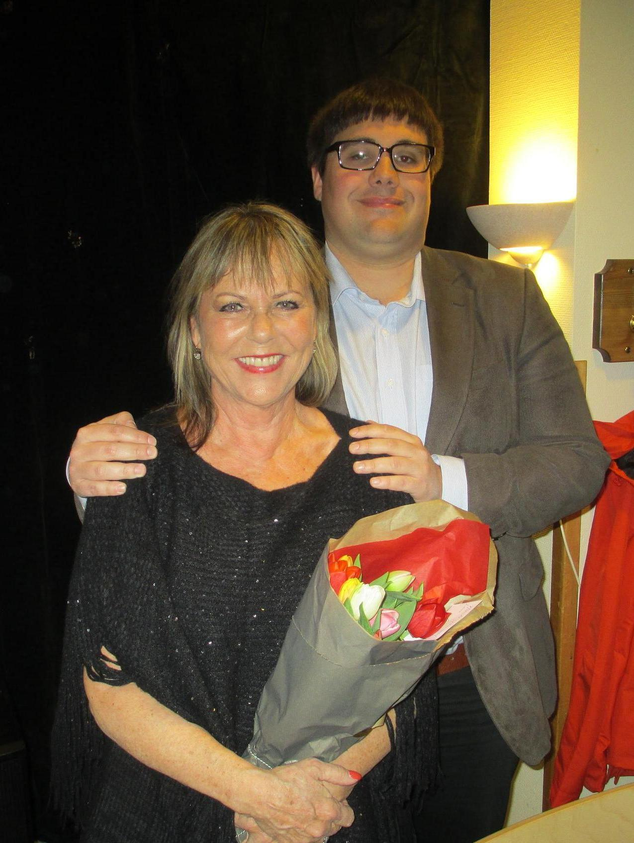 Swedish actress & educator Bibbi Unge and son Joakim EljasPlace: Cesannas, Stockholm, Sweden